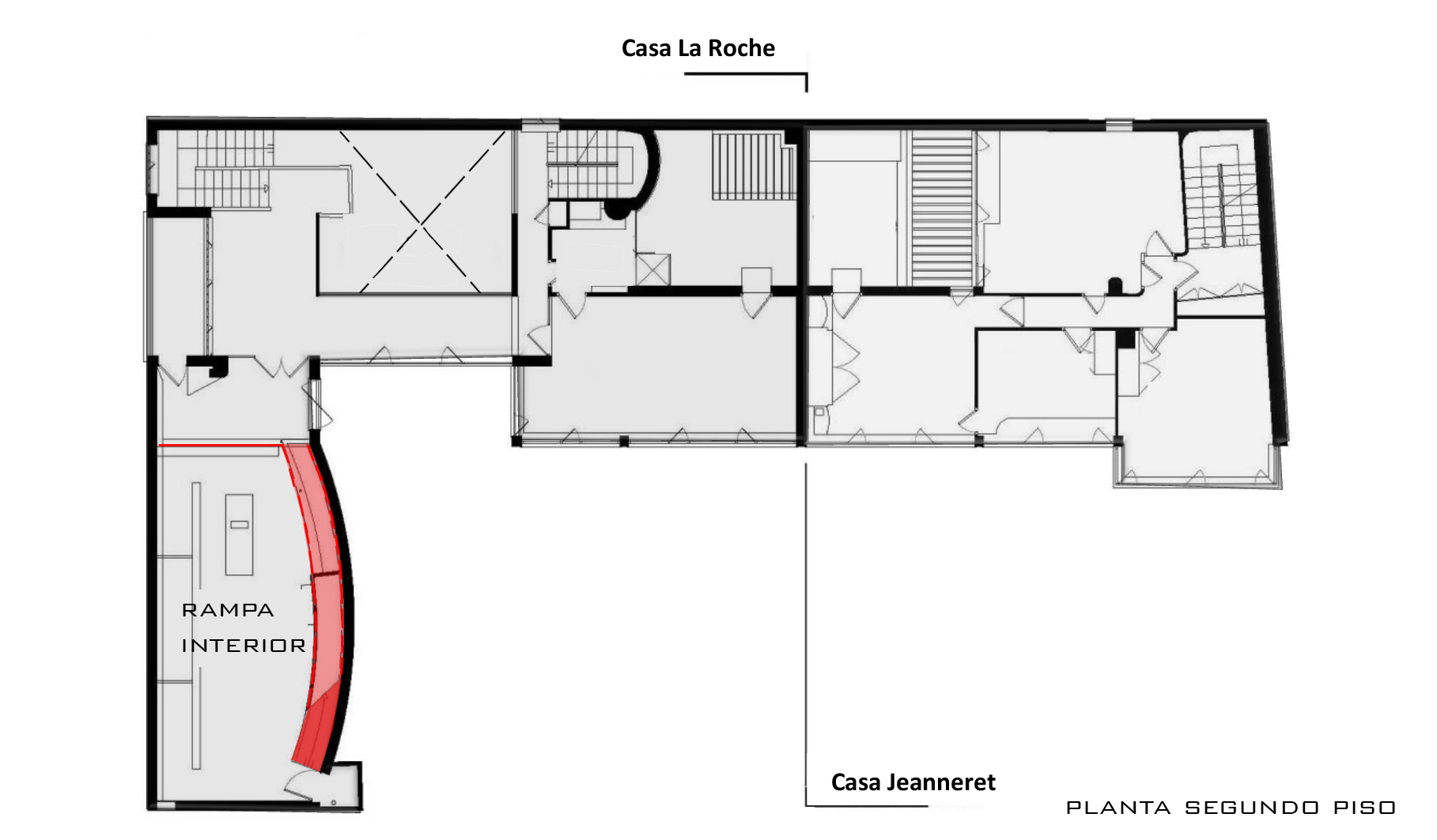 Planta Rampa Interior